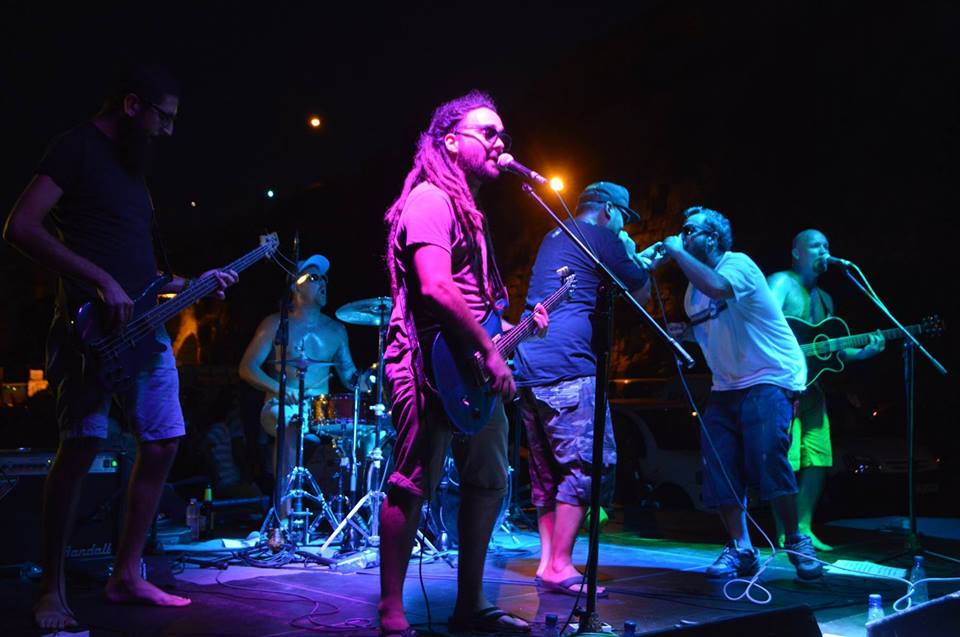 ManaTapu - live at the 2015 Malta Arts Festival in Valletta